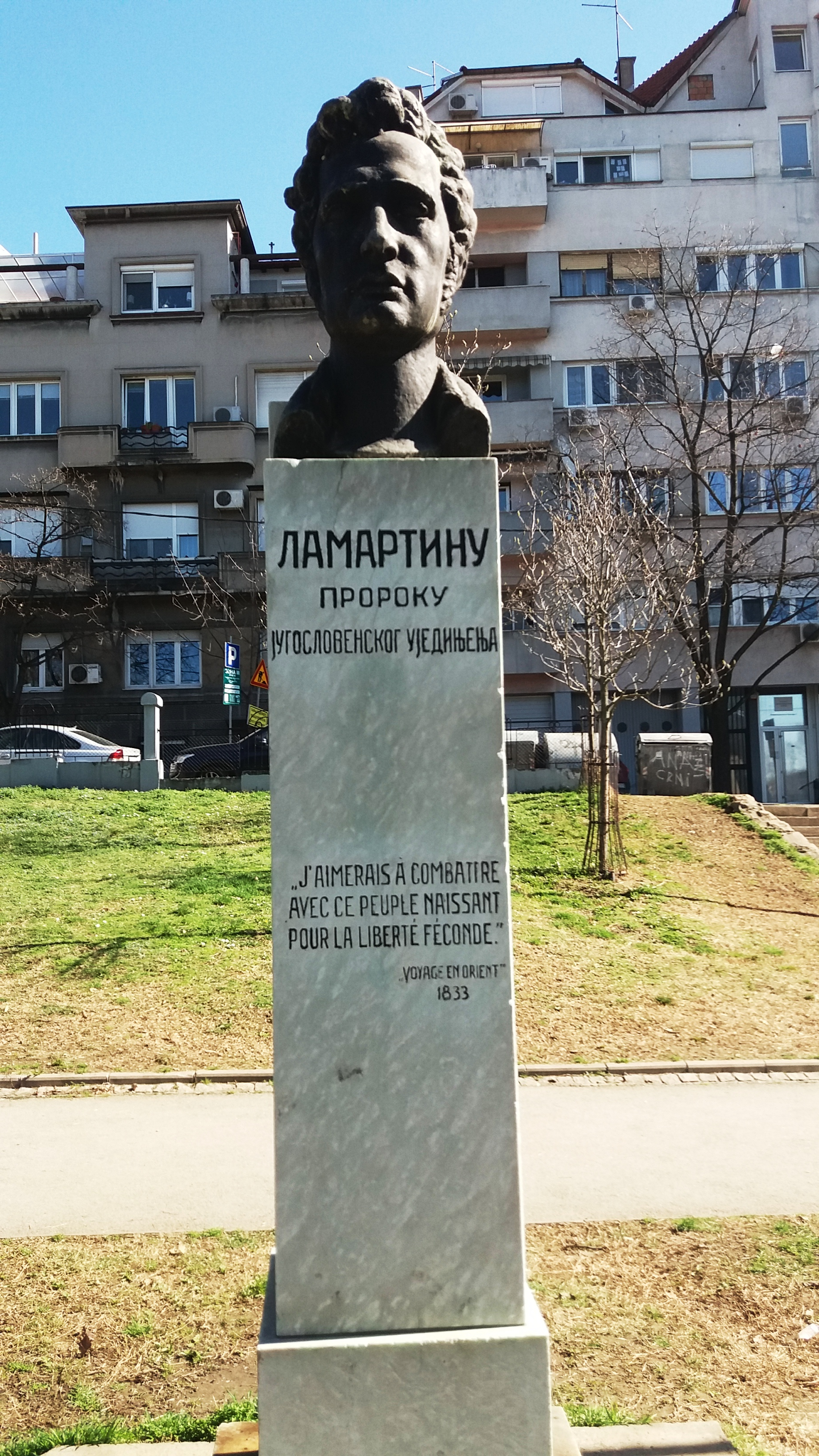 Lamartin Memorial on Vracar, Park of Karadjordje, Belgrade